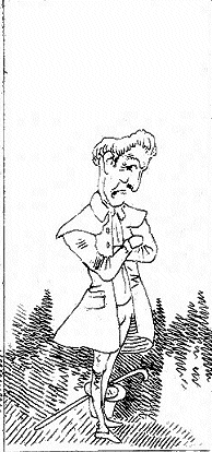 Histoire de M. Vieux Bois comic strip by Rodolphe Töpffer